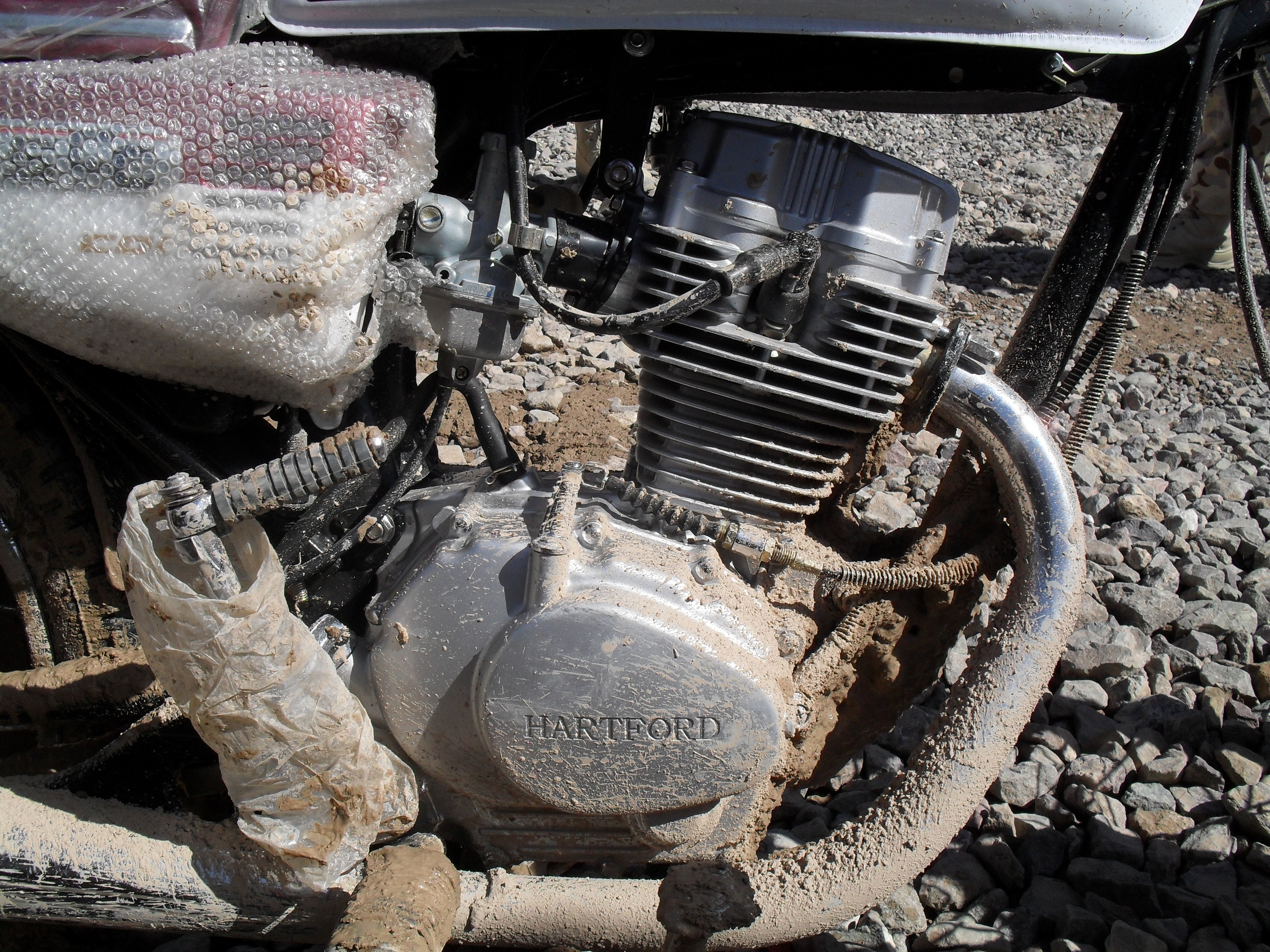 Taiwanese Hartford 125 cc four stroke engine